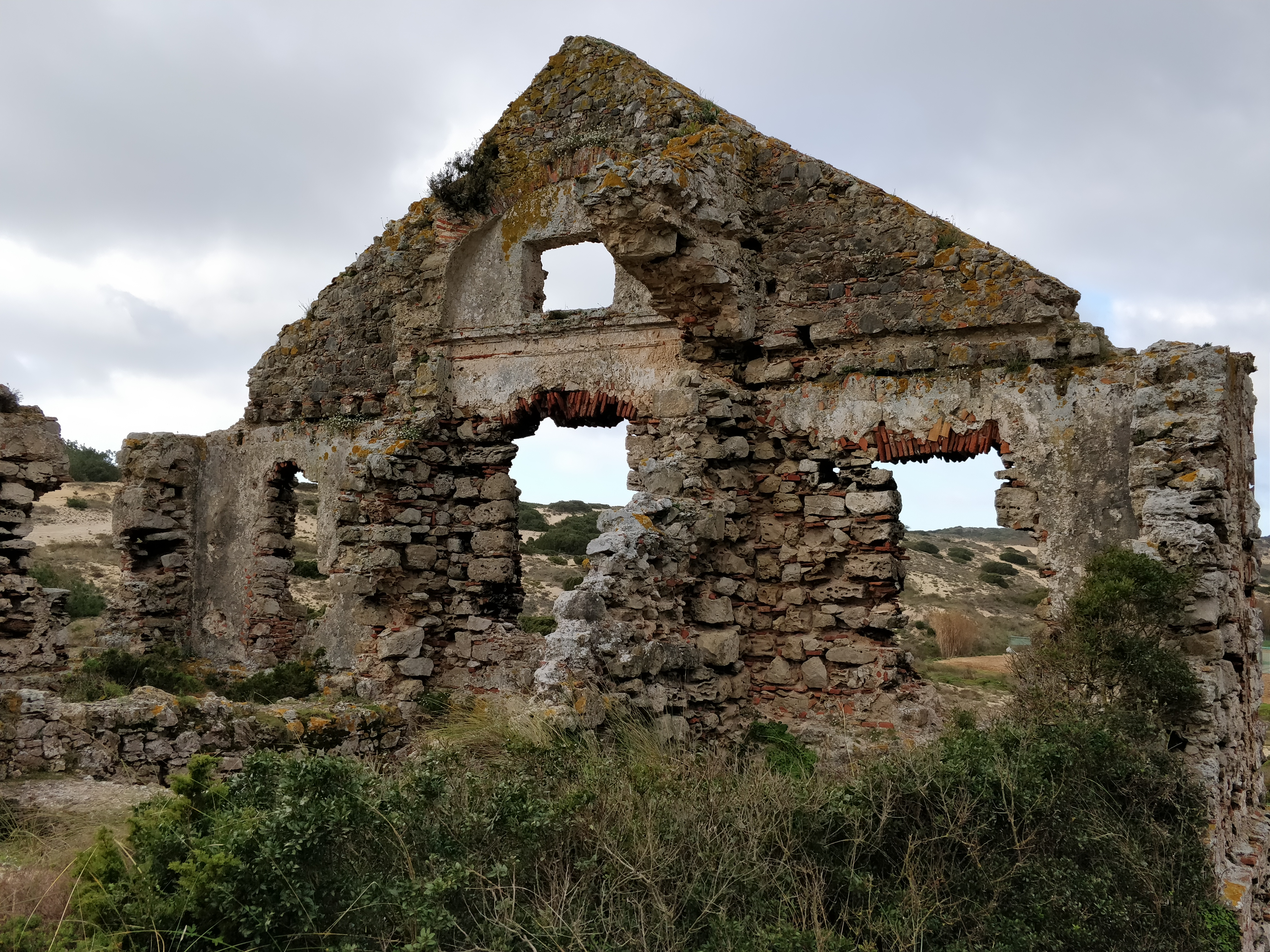 View of the ruins of Penafirme Convent near Ribamar in the Lisbon District of Portugal.